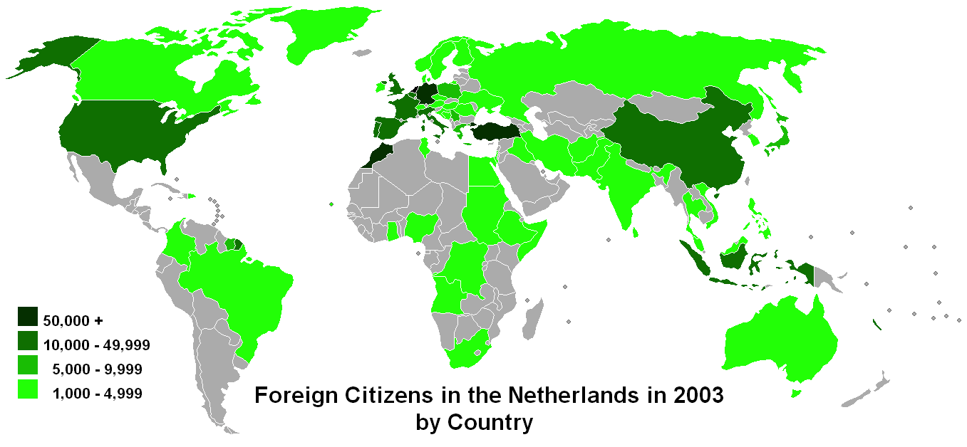 Foreign citizens in the Netherlands in 2003, ref